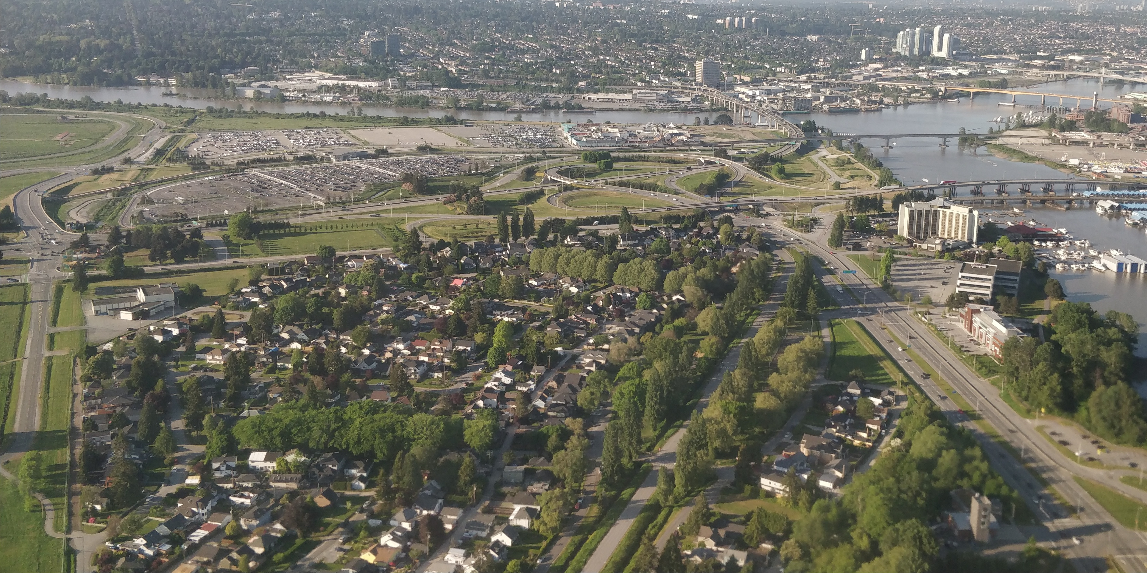 Sea Island's Burkeville viewed from a plane departing YVR.